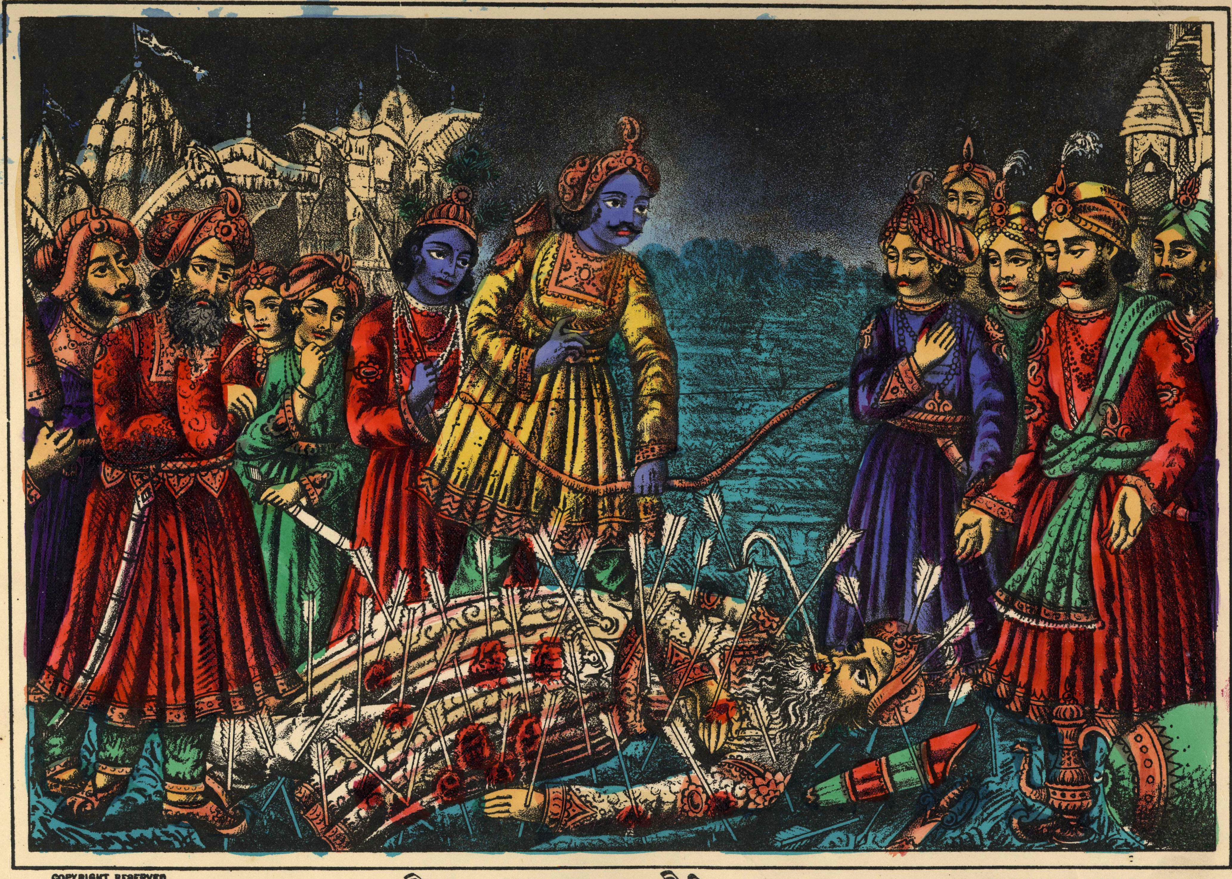 Album of popular prints mounted on cloth pages. Colour lithograph, lettered, inscribed and numbered 4 depicting a scene from the Mahabharata. Bhisma is lying on a bed of arrows with Arjuna standing above him with bow drawn and pointed. Bhisma is pierced by numerous arrows.